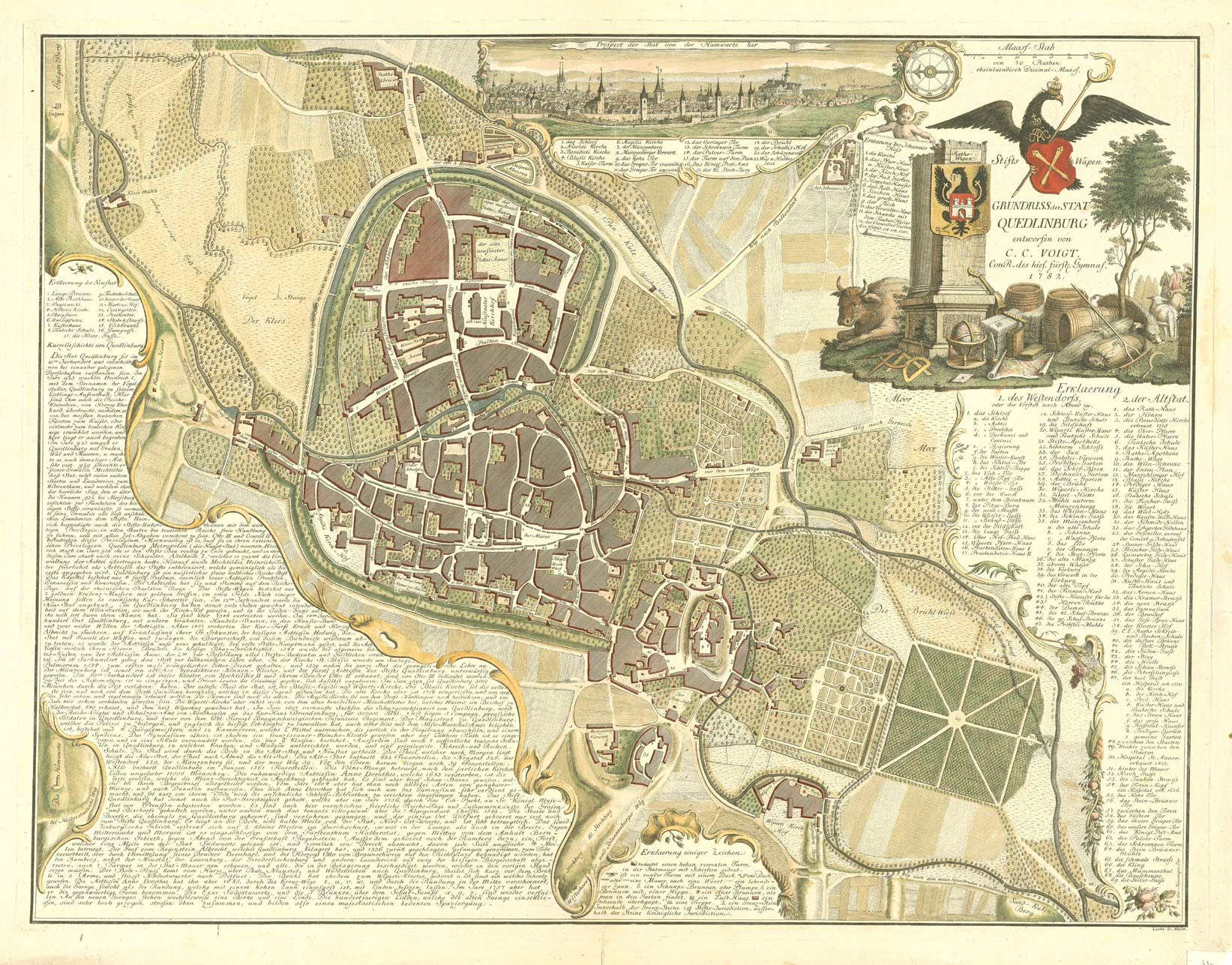 city map of Quedlinburg drawn in 1782